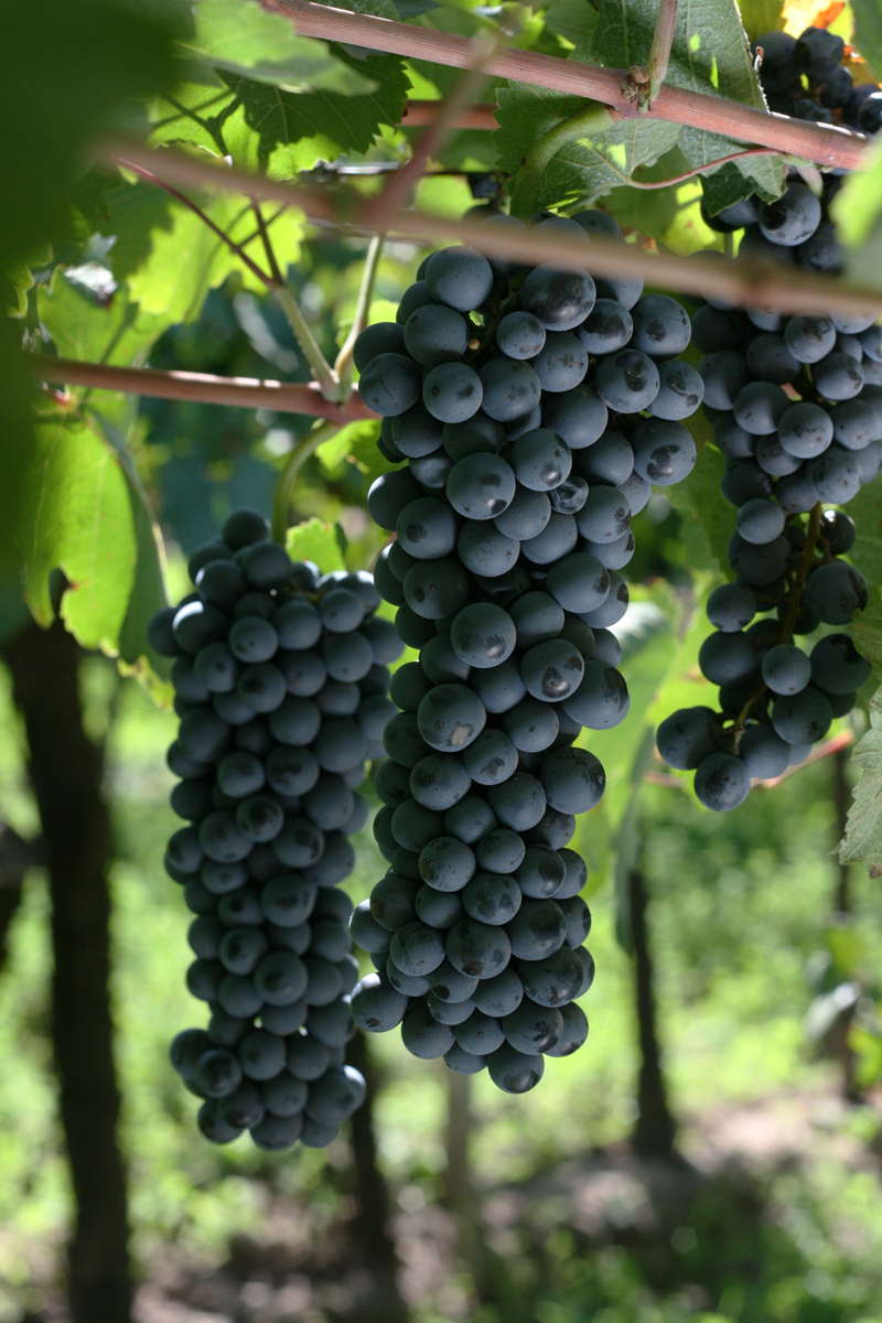 Cluster of Bonarda/Charbone/Douce noir grapes taken in Mendoza Agentina. Photo taken by lipecillo. Author's websites: and